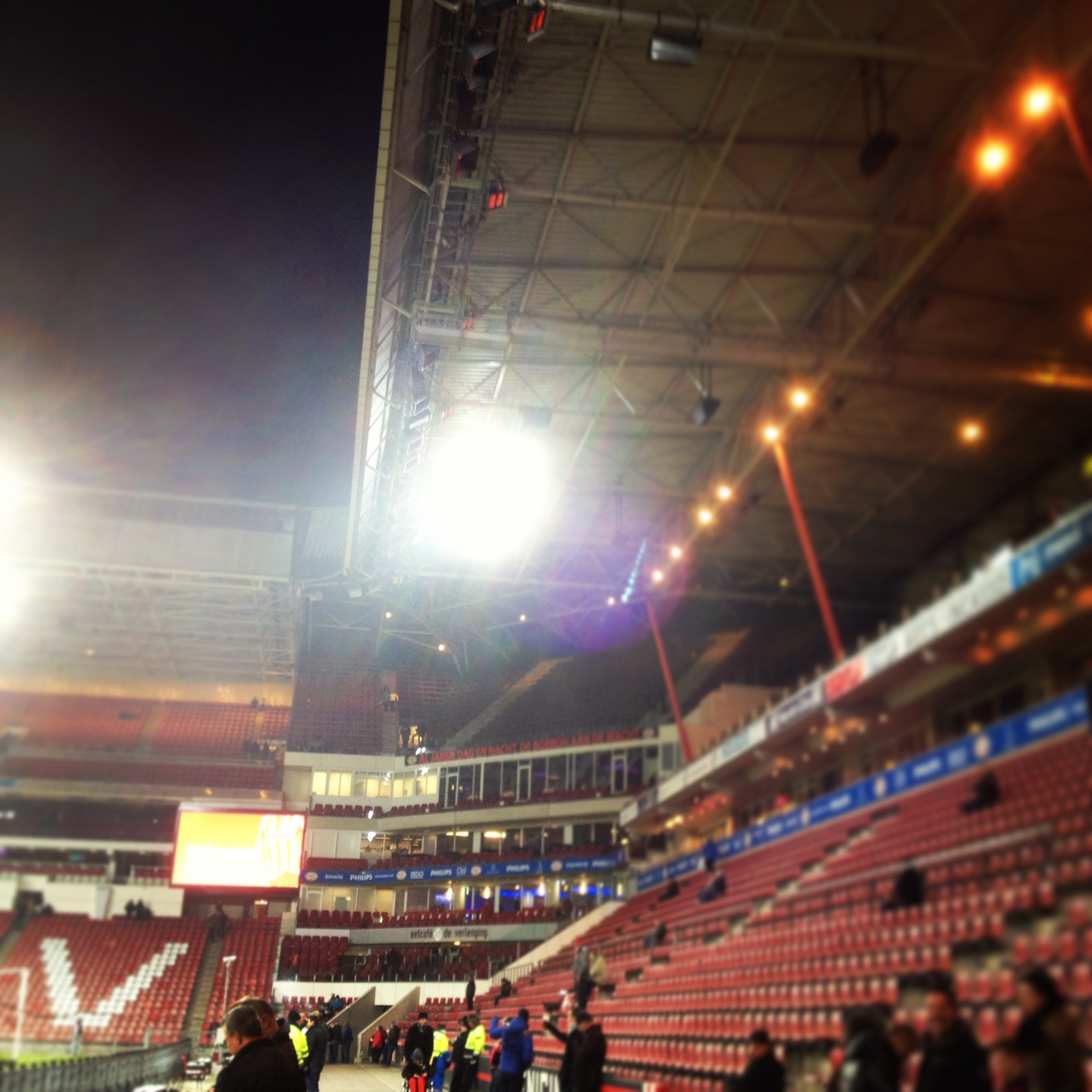 The Philips Stadion